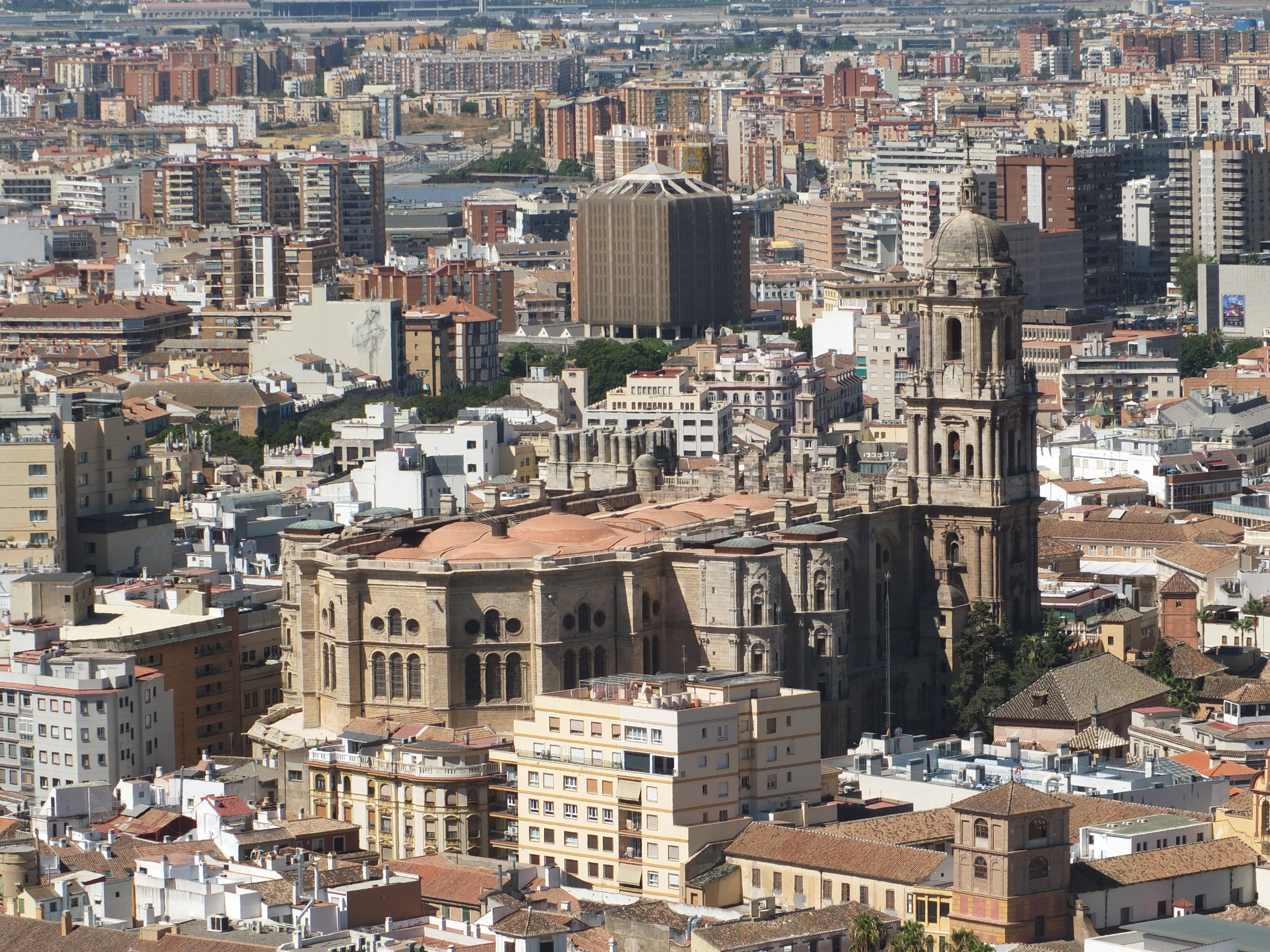 Cathedral of Málaga (Catedral de la Encarnación de Málaga), Andalusia, Spain